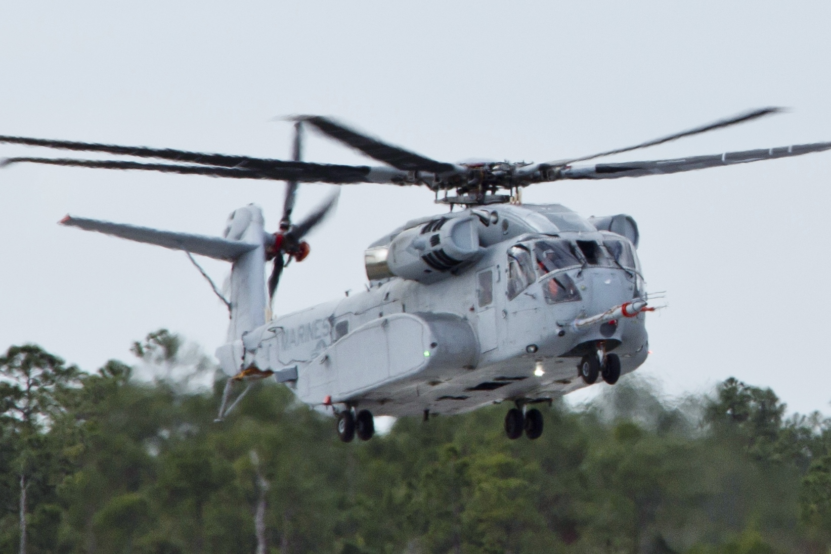 A Sikorsky CH-53K King Stallion aircraft prepares to land at Sikorsky Aircraft Corporation, Jupiter, Florida (USA) on 8 March 2016. The CH-53K will replace the CH-53E Super Stallion aircraft, used by the U.S. Marine Corps.